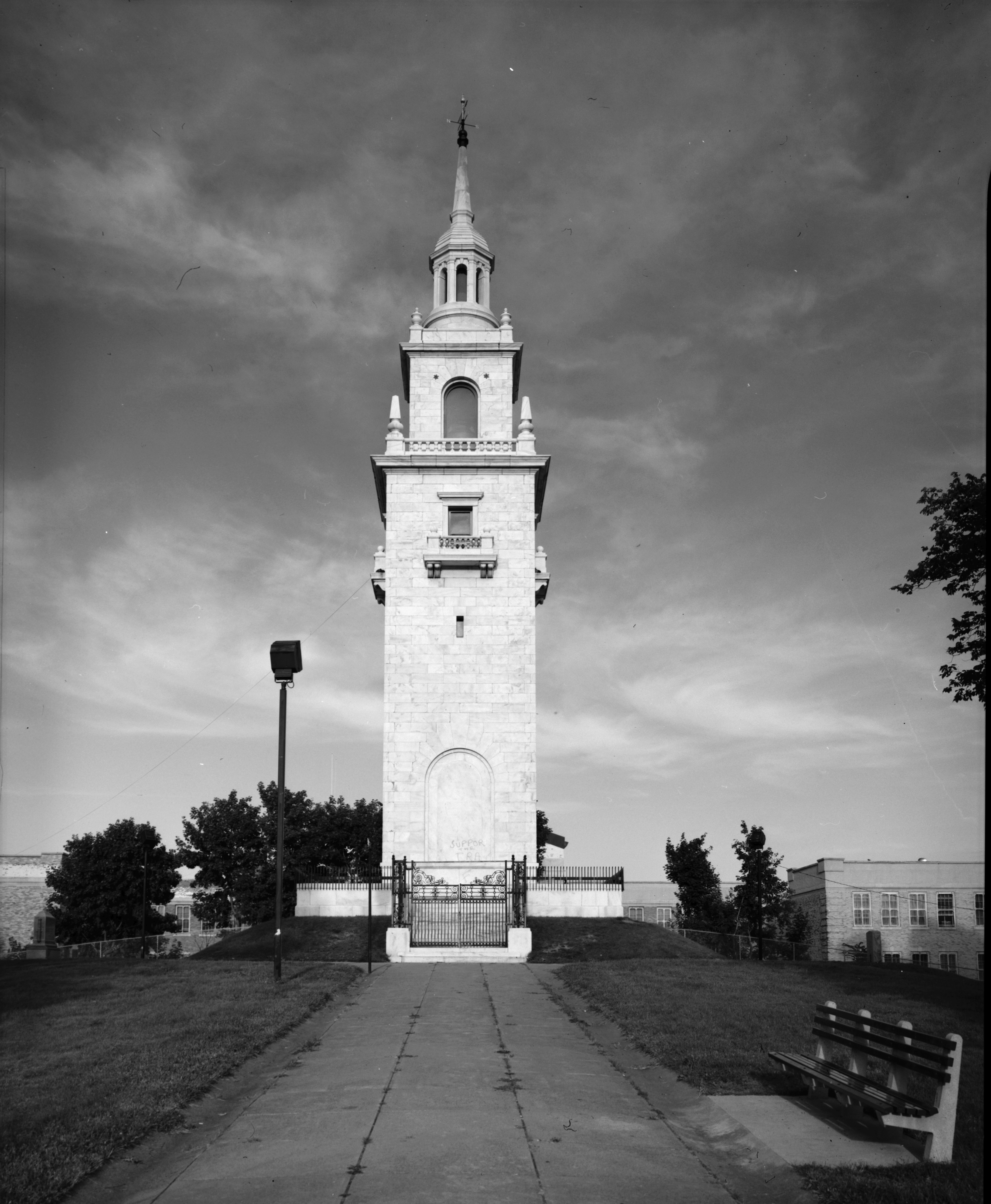 Photograph of the Dorchester Heights Monument, Boston, Massachusetts.